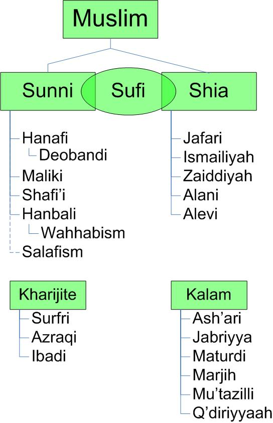 Diagram of the divisions, sects, schools, and traditions within Islam, as described at Divisions of Islam